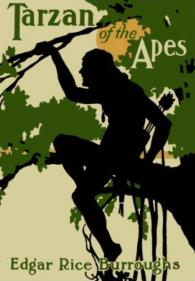 Color cover of the book Tarzan of the Apes, written by Edgar Rice Burroughs and published in 1914.